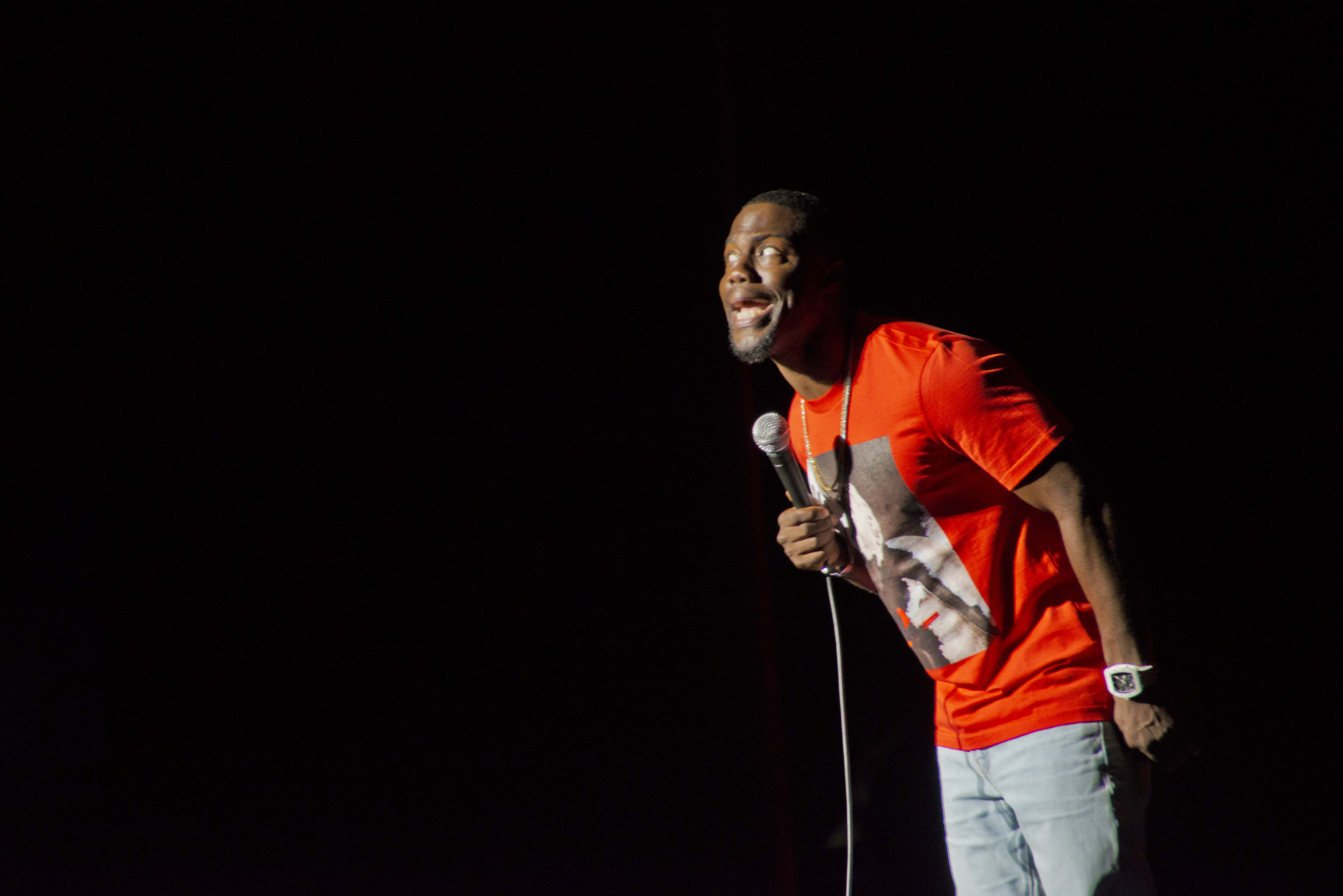 MSC Town Hall and Wiley